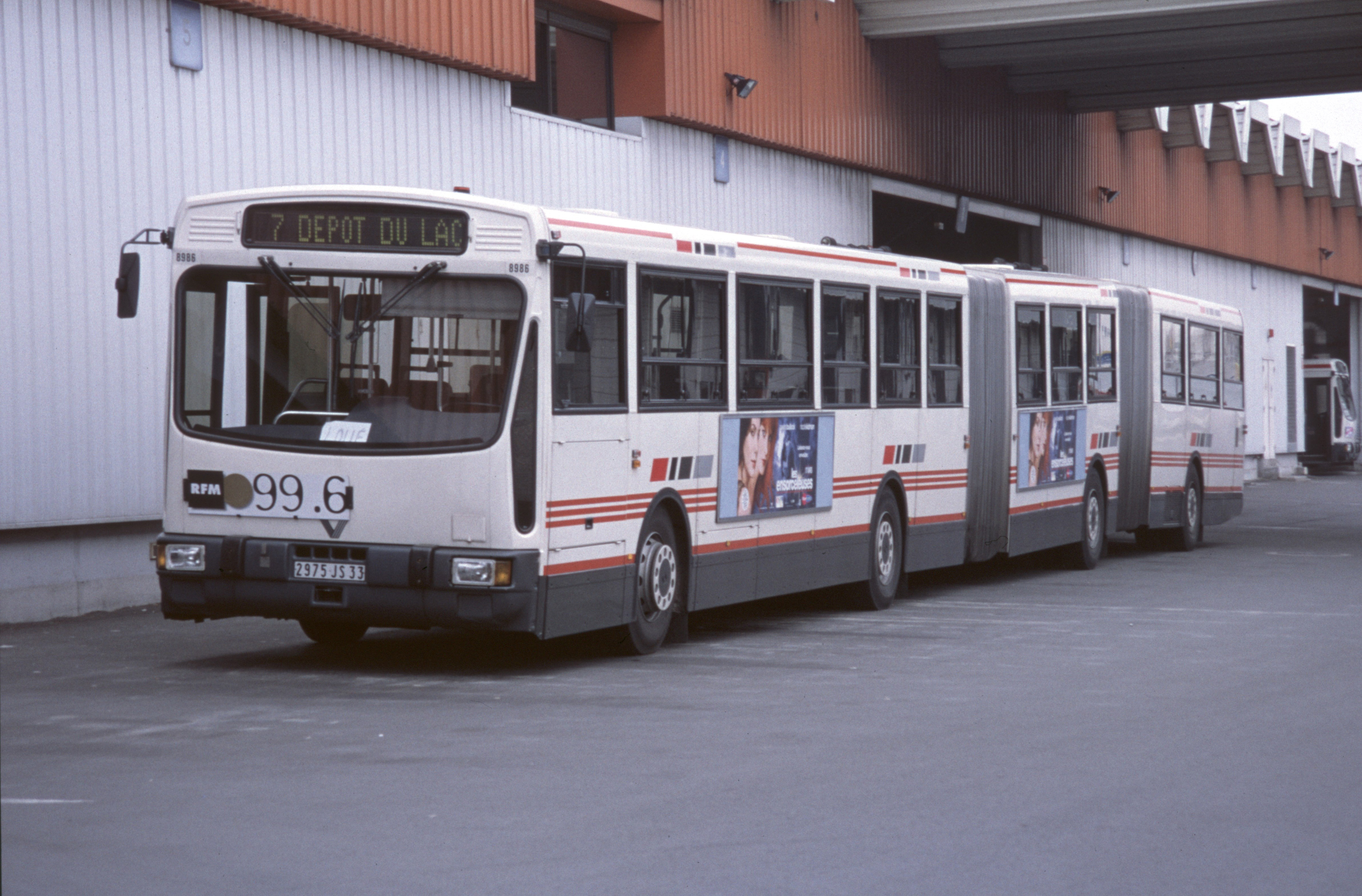 A Renault Mégabus (n°8986 of the CGFTE) parked at the Dépôt du lac (Bordeaux, France) on March 13, 1999, on the occasion of a general assembly of the association Car-Histo-Bus.